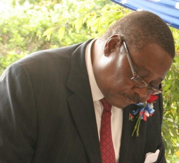 Peter Mutharika